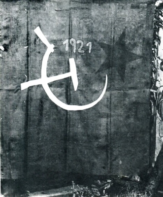 The original flag of the Albona Republic.